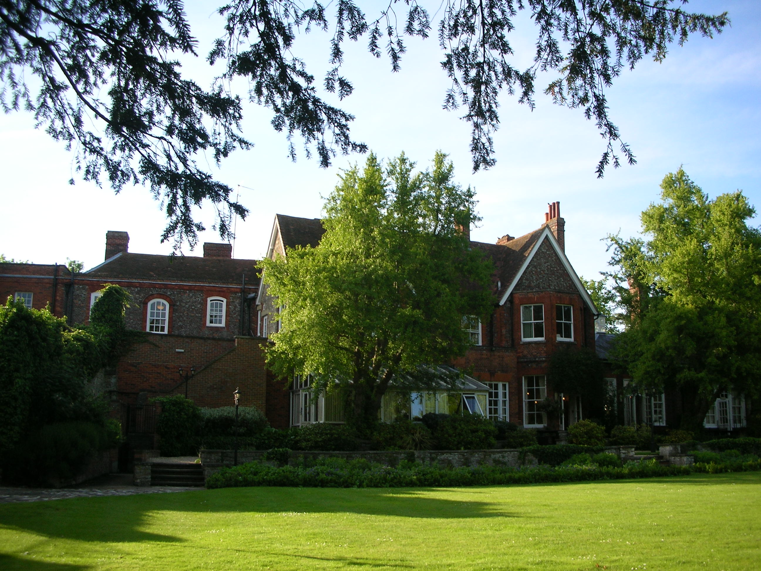 The Cosener's House, Abingdon, Oxfordshire, England. Photograph by Jonathan Bowen, 2006.